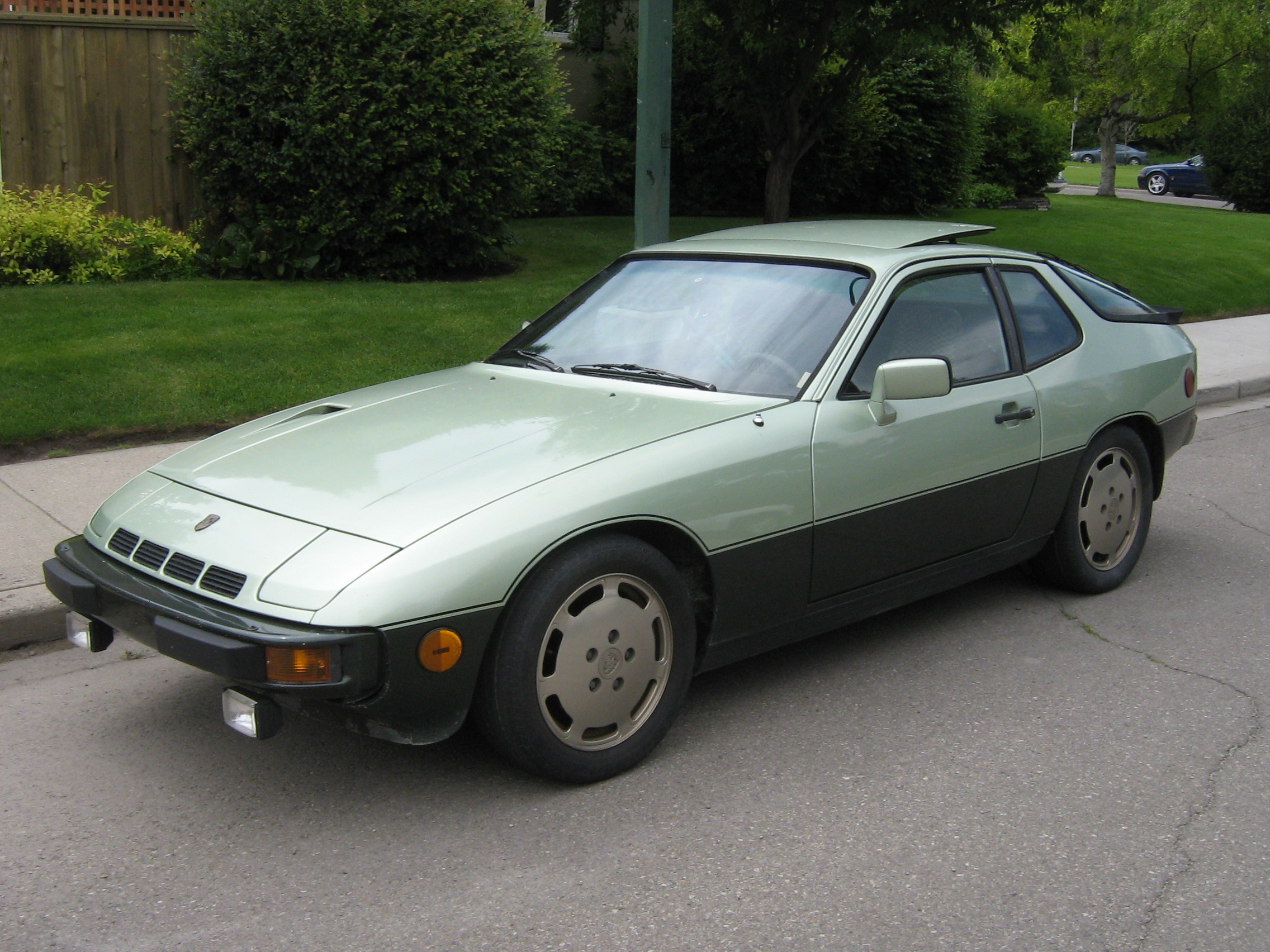 Porsche 924 Turbo parked outside the European Classic Car show.